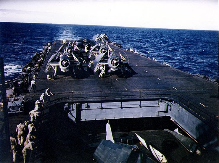 U.S. Navy Grumman TBM-1C Avenger torpedo bombers from Torpedo Squadron 10 (VT-10) warming up on the after flight deck of the aircraft carrier USS Enterprise (CV-6) during operations in the Pacific, circa May 1944. A Grumman F6F-3 Hellcat fighter from Fighter Squadron 10 (VF-10) "Grim Reapers" is on the midships elevator, in the foreground.